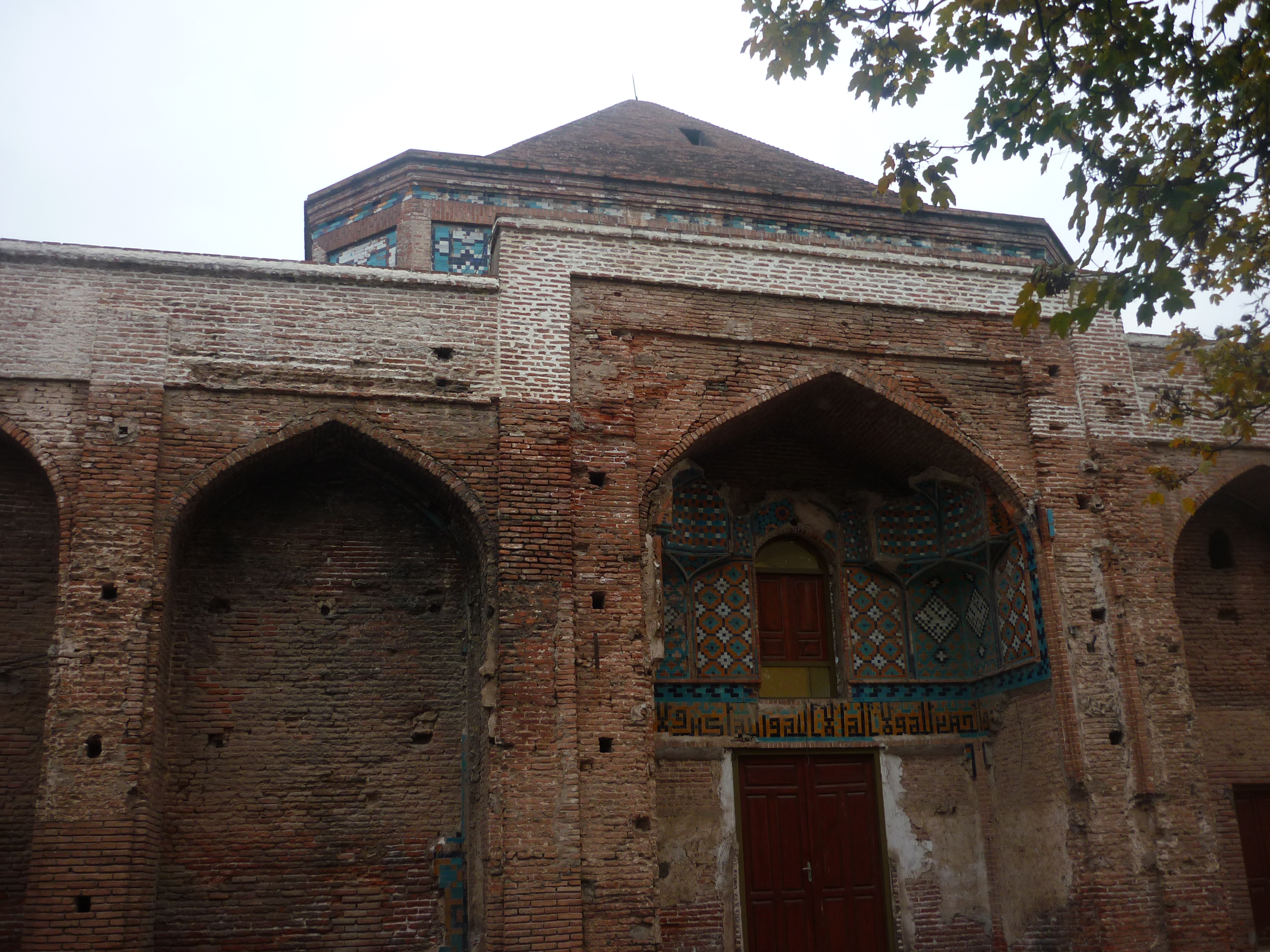 Tomb of Mir-i Buzurg, the founder of the Marashi dynasty of Mazandaran in Iran.